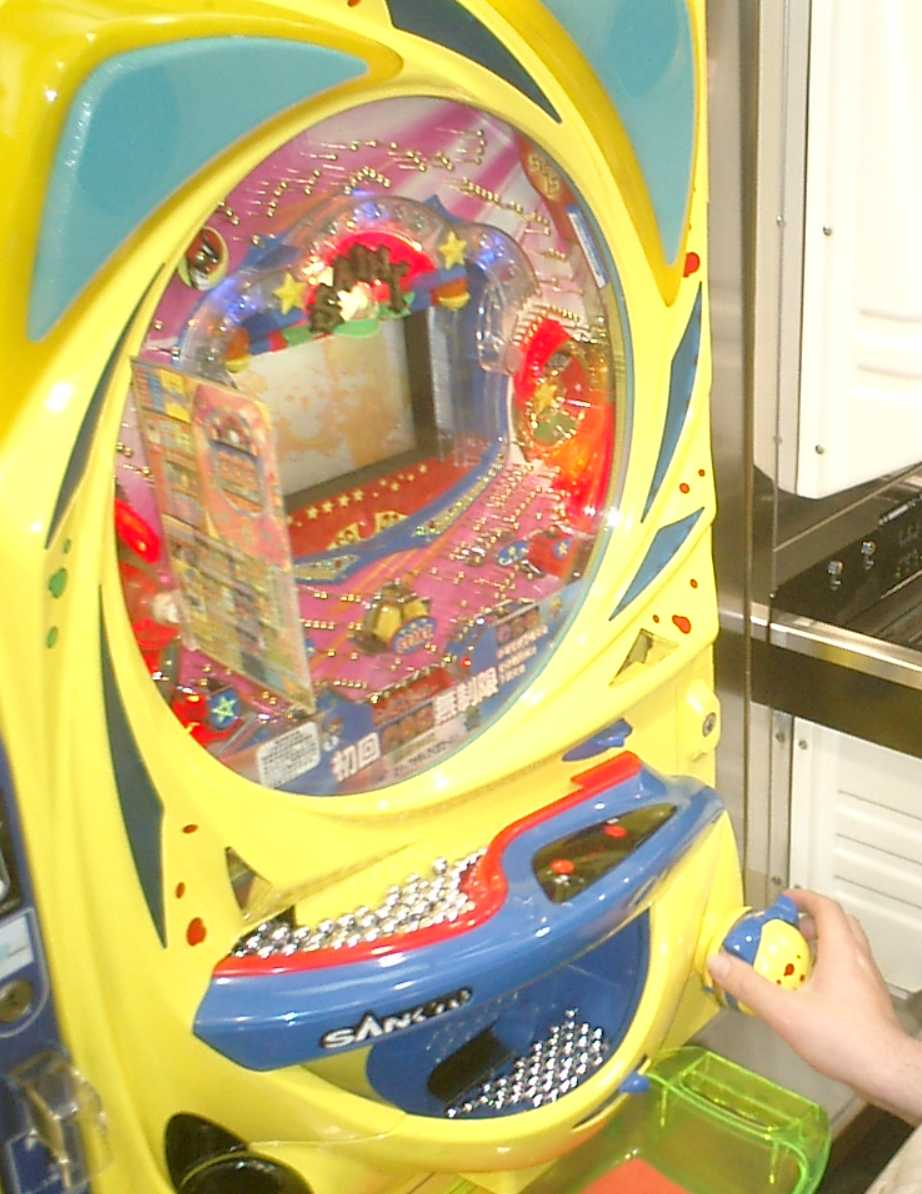 Pachinko place in Yokohama, Japan